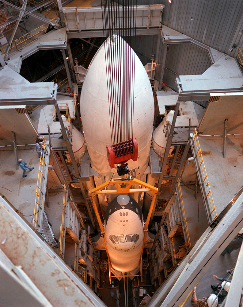 The Shuttle Orbiter Enterprise inside of Marshall Space Flight Center's Dynamic Test Stand for Mated Vertical Ground Vibration tests (MVGVT). The tests marked the first time ever that the entire shuttle complement including Orbiter, external tank, and solid rocket boosters were vertically mated. Image #: 7992372 Date: October 4, 1978